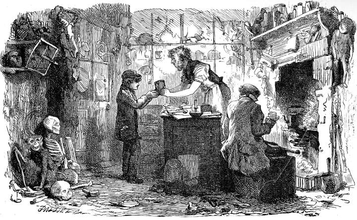 Mr Venus in his shop, with Silas Wegg and a client